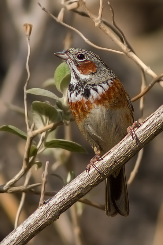 Chestnut-eared Bunting | Nainital, Uttarakhand, India